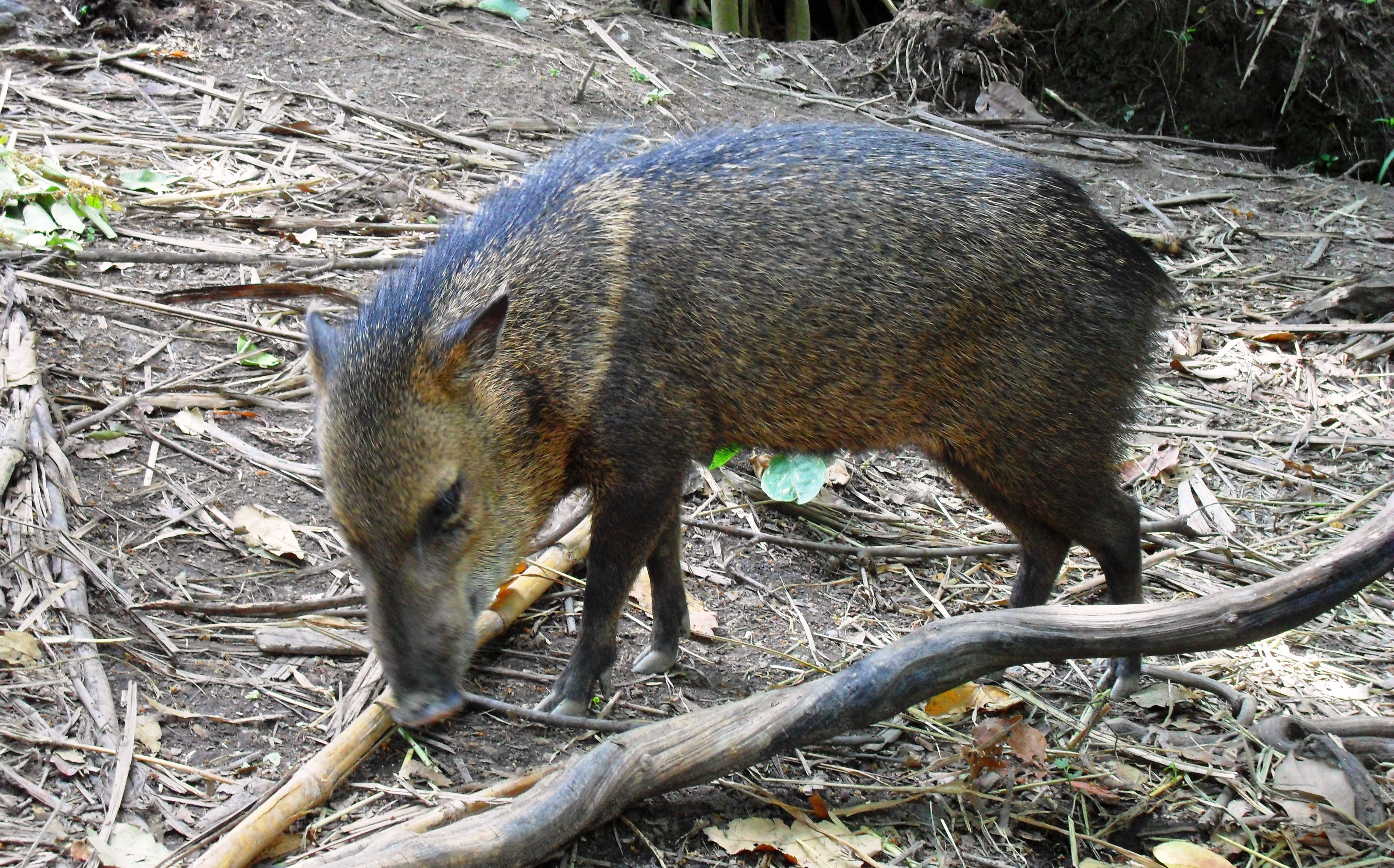 a colombian boar